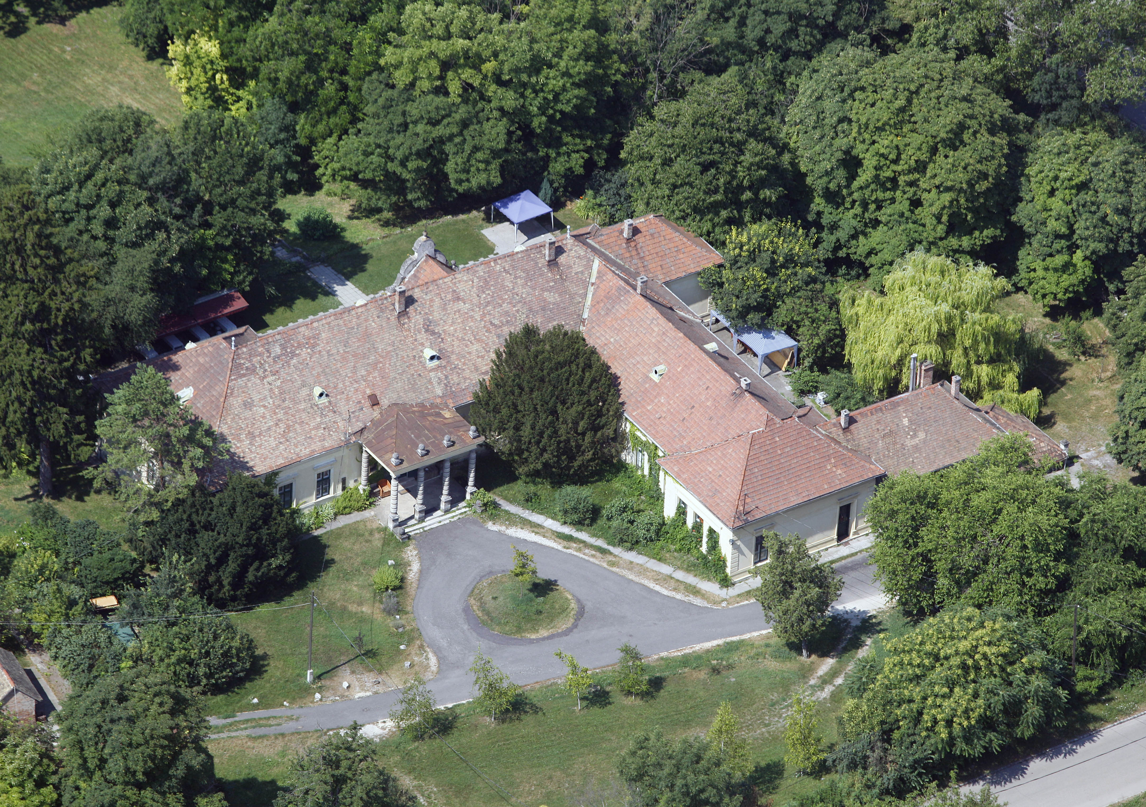 Barcza-kastély (Castle), Pusztazámor, Hungary, aerial photography